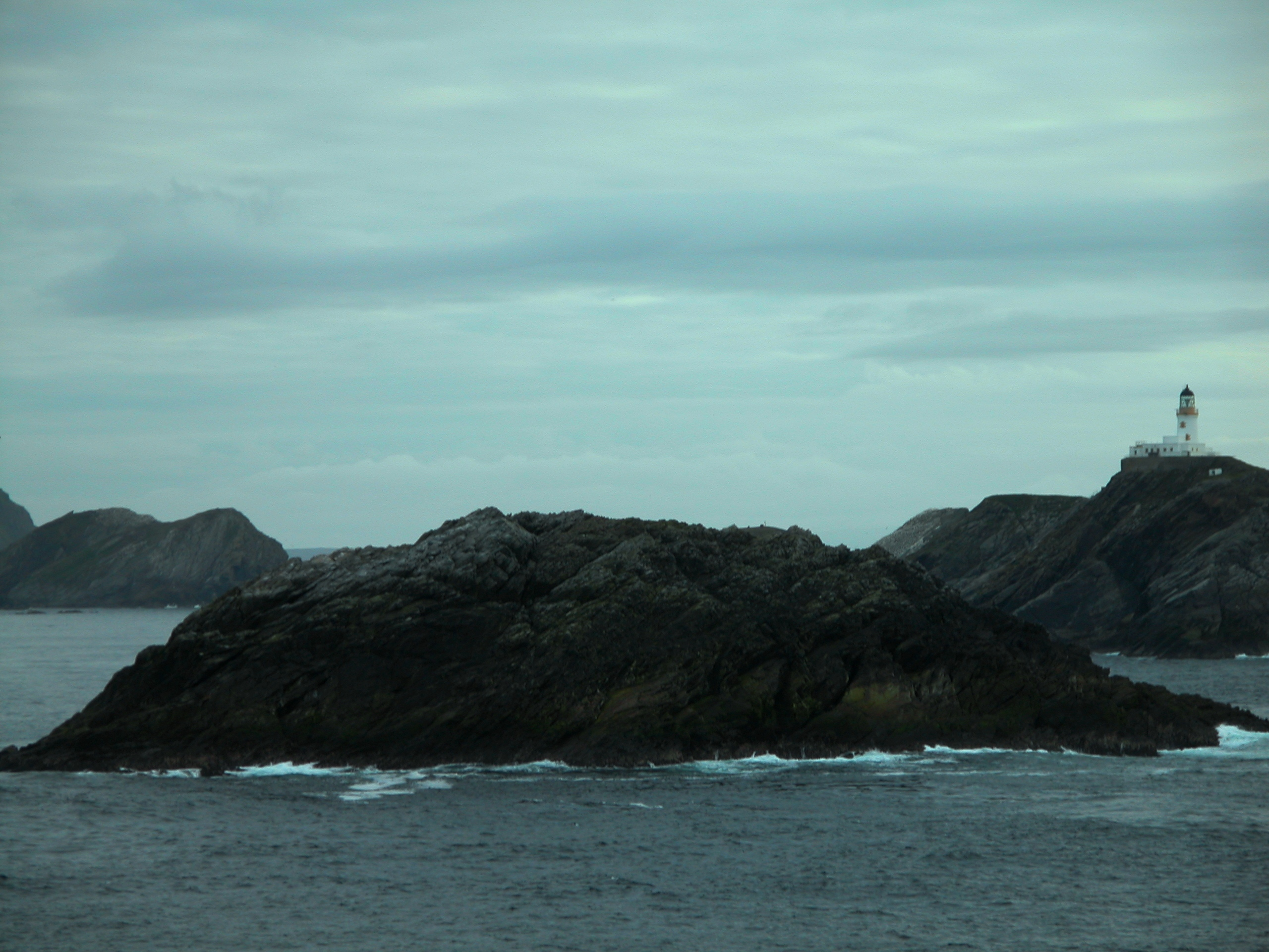 Out Stack or Ootsta in Shetland, Scotland, is the northernmost of the British Isles